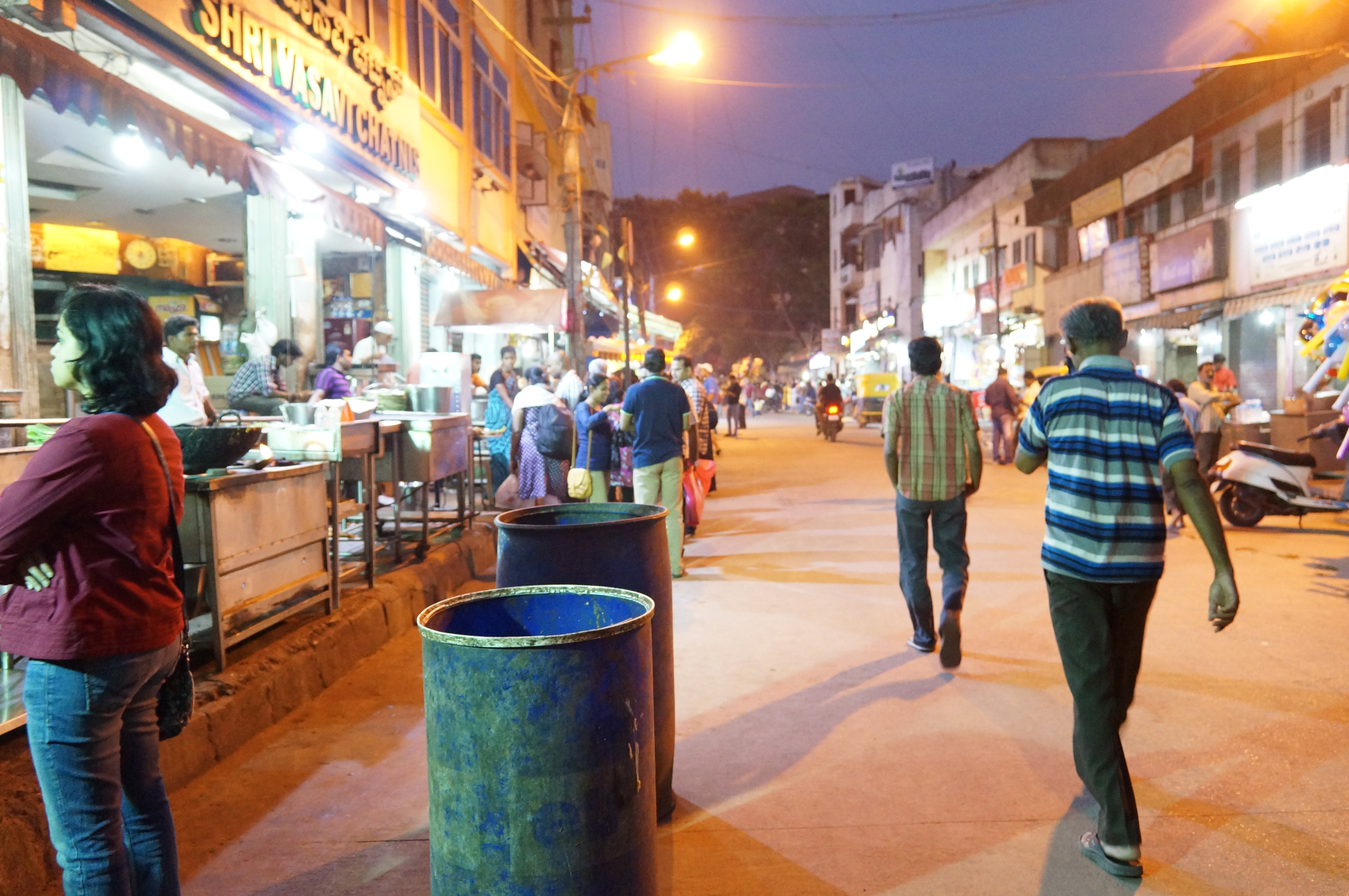 Before the foodies flock in...